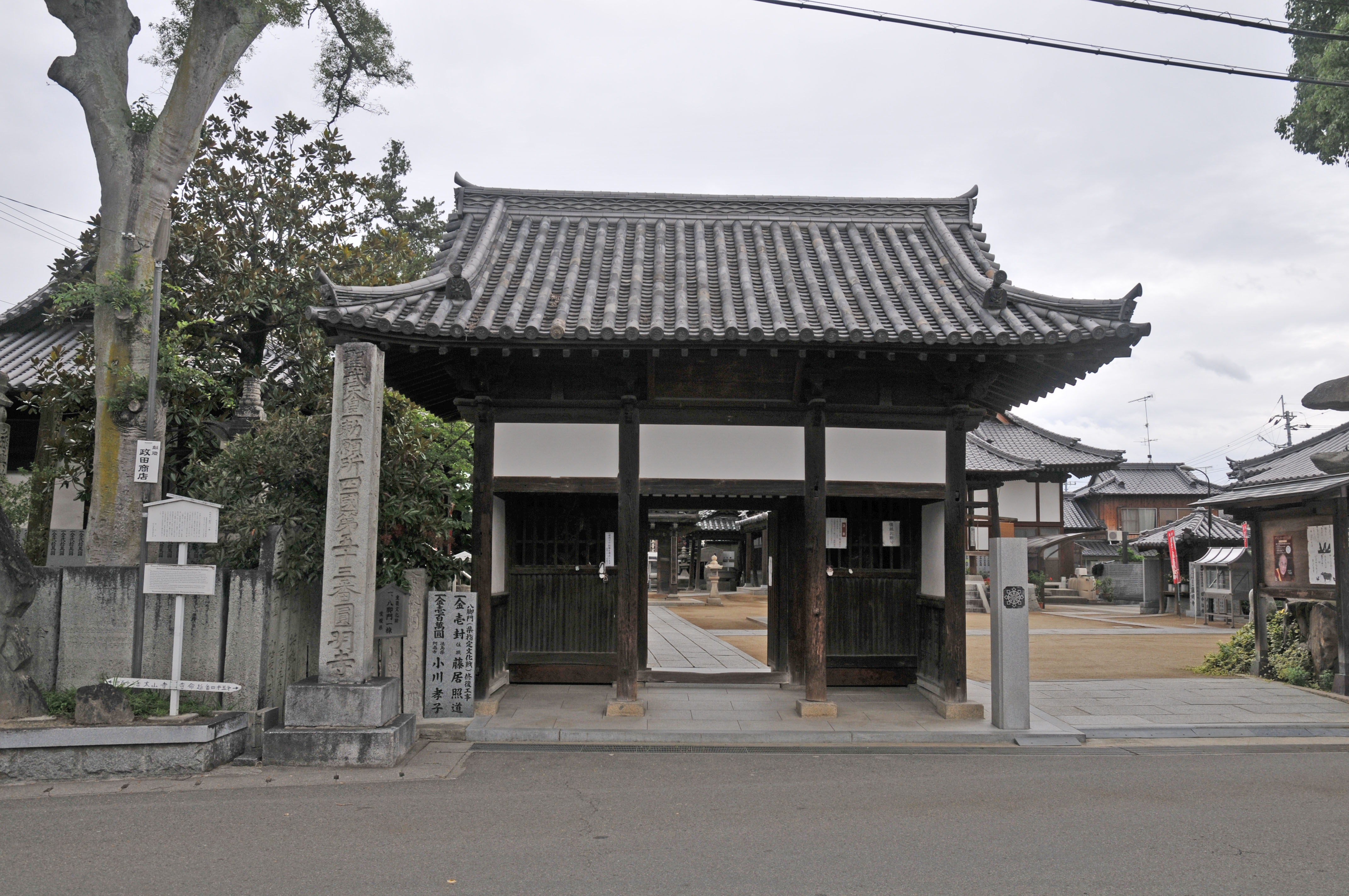 Temple gate, Enmyō-ji